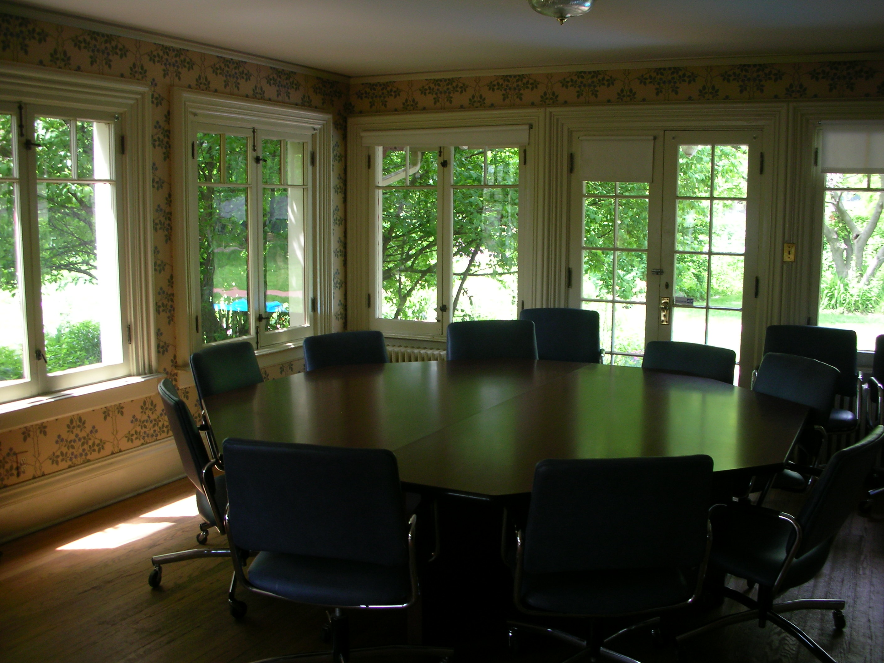 The octagonal discussion table in the Hutchins classroom, used for science courses on the Waukegan campus of Shimer College.